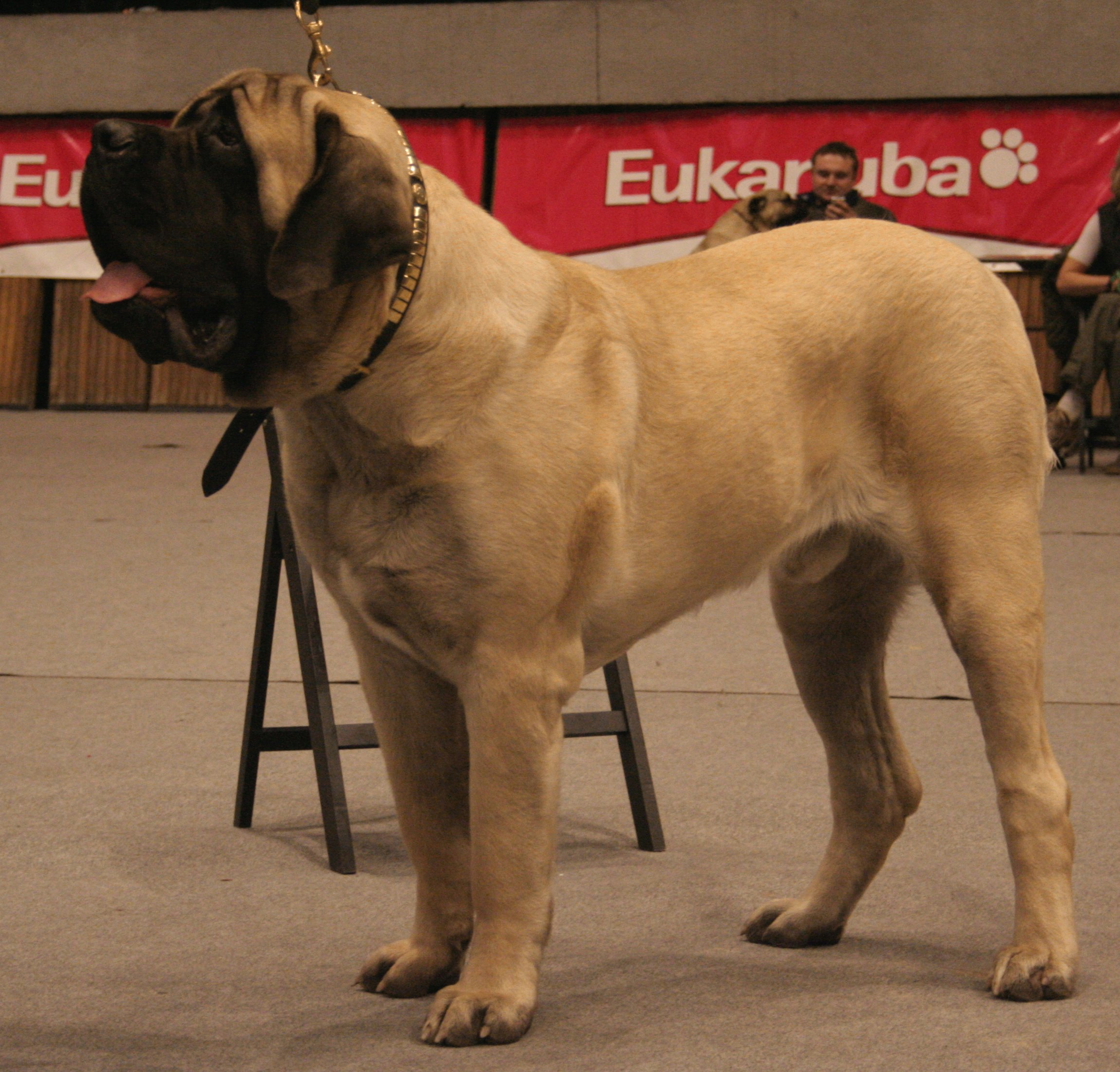 Mastiff Westgort Anticipation during dogs show in Katowice, Poland